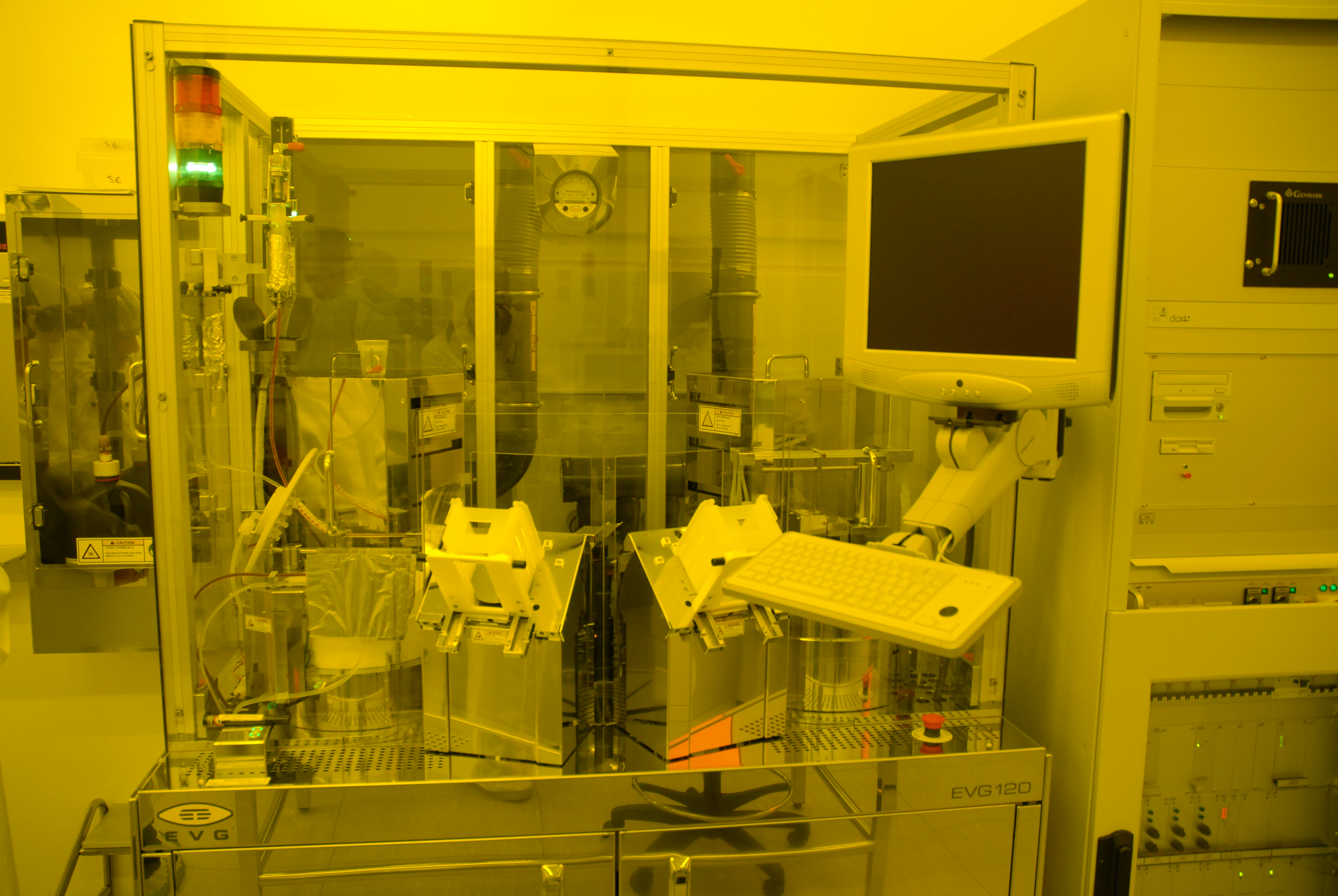 EVG 120 fully automated photoresist coater-developer under inactinic light at LAAS-CNRS technological facility in Toulouse, France.